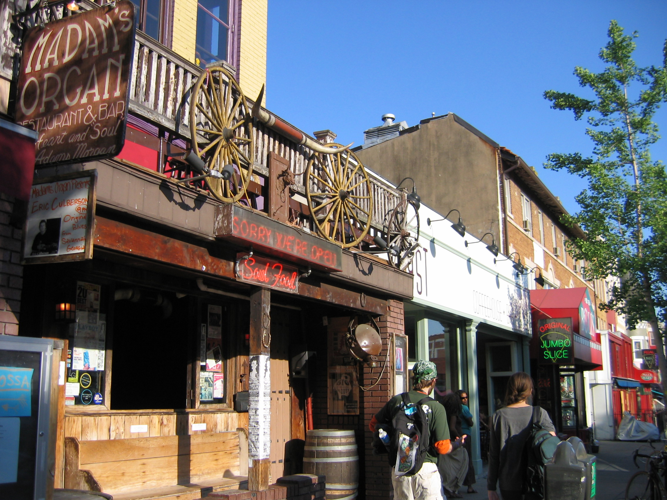 Madam's Organ - a popular, quirky local bar, Tryst coffeehouse, and other shops located along 18th Street NW, in Washington, D.C.'s Adams Morgan neighborhood.